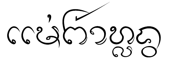 Lanna-Mae Fa Luang